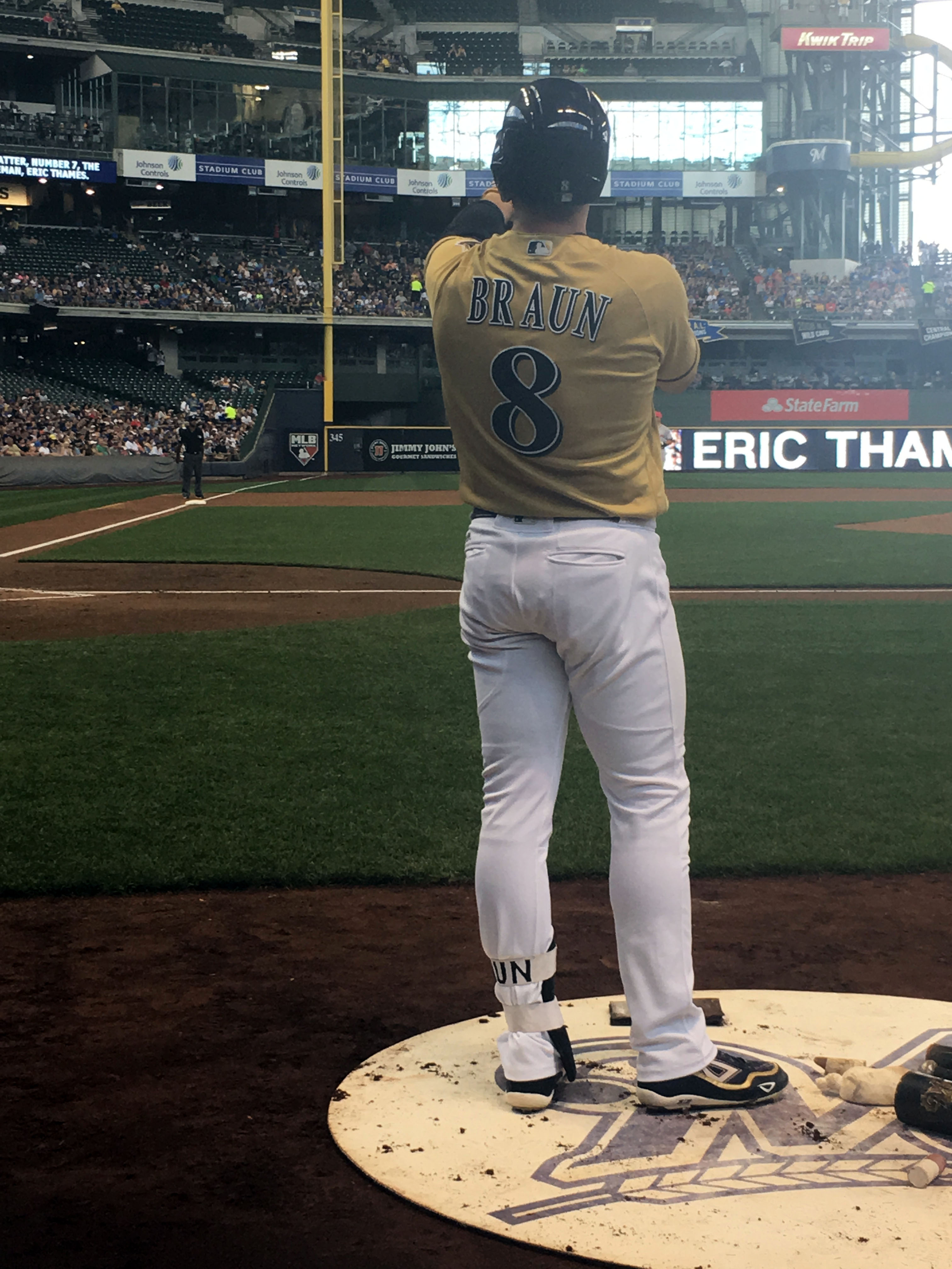 Ryan Braun in the batter's circle at Miller Park 2017